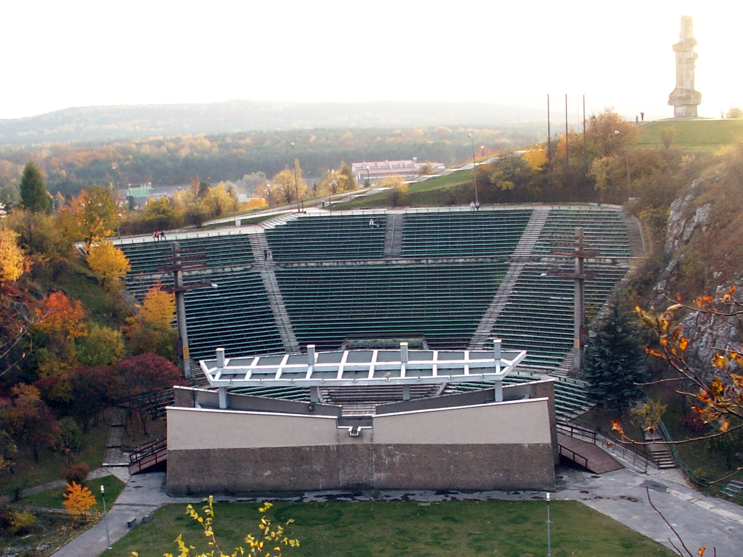 Amphitheatre on Kadzielnia in Kielce (Poland) (replaced with new building in 2009/2010)